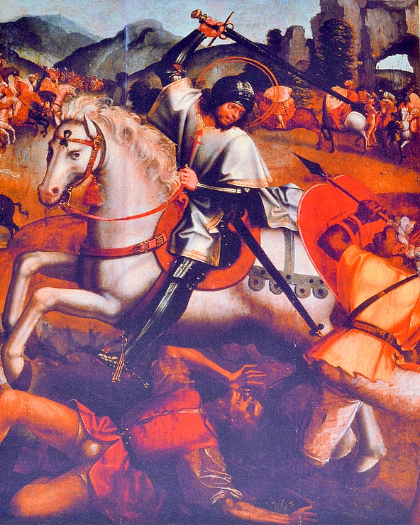 São Tiago combatendo os Mouros é uma pintura a óleo sobre madeira pintada no período de 1520 a 1525 presumivelmente pelo pintor que se designa por Mestre da Lourinhã, com 130 cm de altura e 85 cm de largura, que fazia parte do Políptico da Igreja do Convento de Santiago e que se encontra actualmente na Museu Nacional de Arte Antiga, em Lisboa